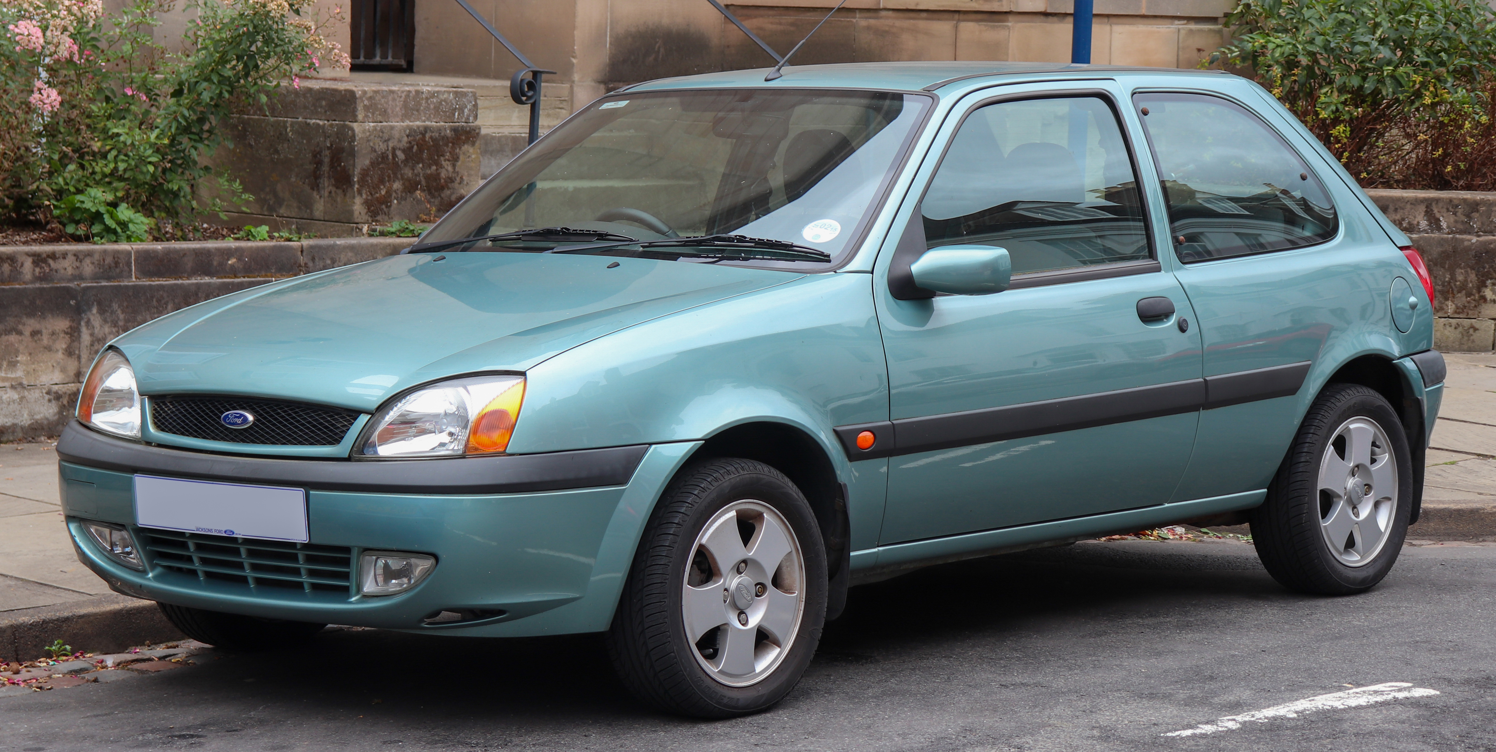 2002 Ford Fiesta Freestyle 1.2 Front Taken in Warwick